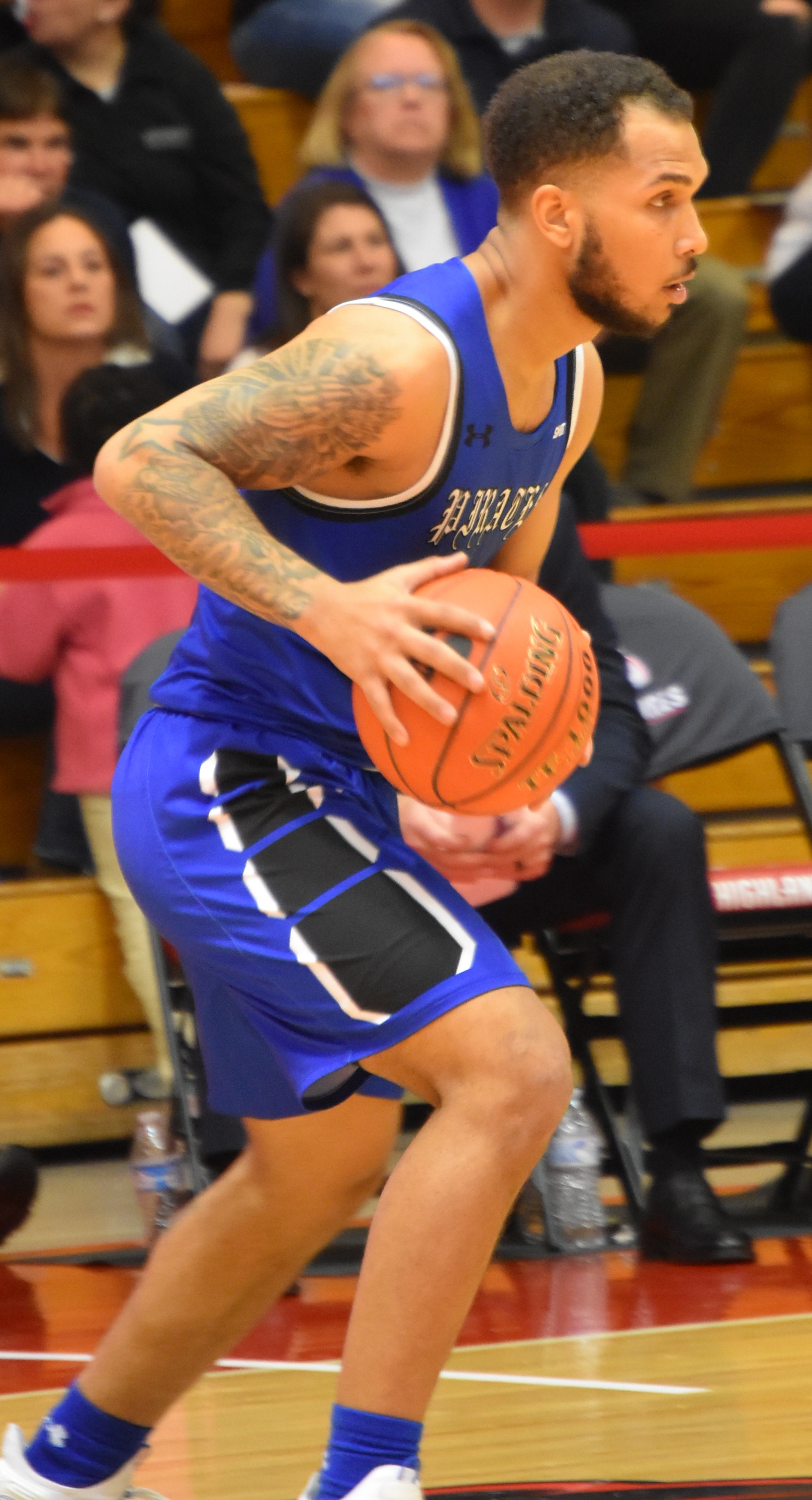 Jermaine Marrow hands the ball for the Hampton Pirates early in their 2020 Big South Quarter Final Game against the Longwood Lancers.